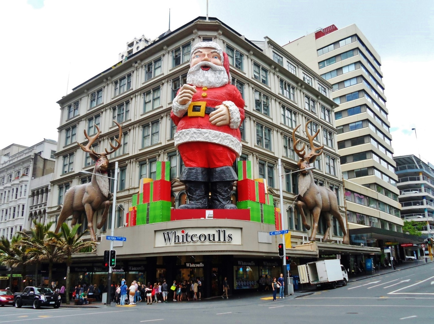 New Zealand book and stationery store Whitcoulls' flagship Queen Street store on Queen Street in the CBD of Auckland, New Zealand in 2013. During the Christmas period the store features the giant Santa and reindeer originally from now-fellow James Pascoe Group company, deparment store Farmers', former flagship store on Hobson Street, also in the CBD of Auckland.